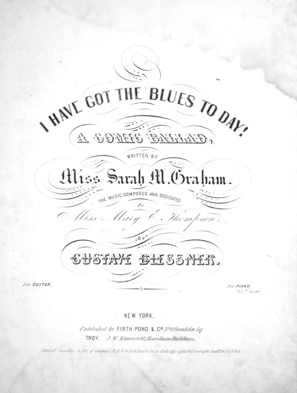 "I Have Got The Blues Today" (sheet music).